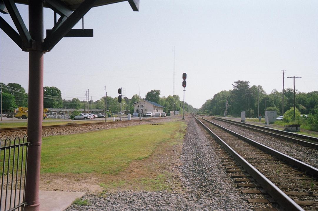 Northbound view from the former Selma Union Depot, now the Selma-Smithfield (Amtrak station) of a CSX maintenance garage on East Anderson Street in Selma, North Carolina.